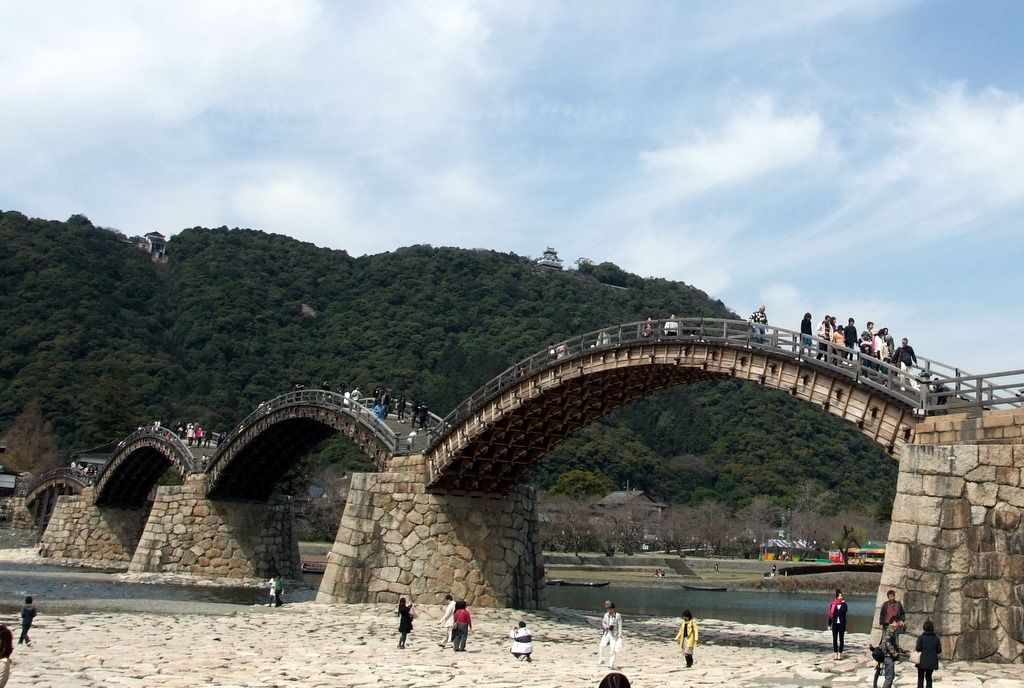 Kintai Bridge at Iwakuni in Yamaguchi prefecture